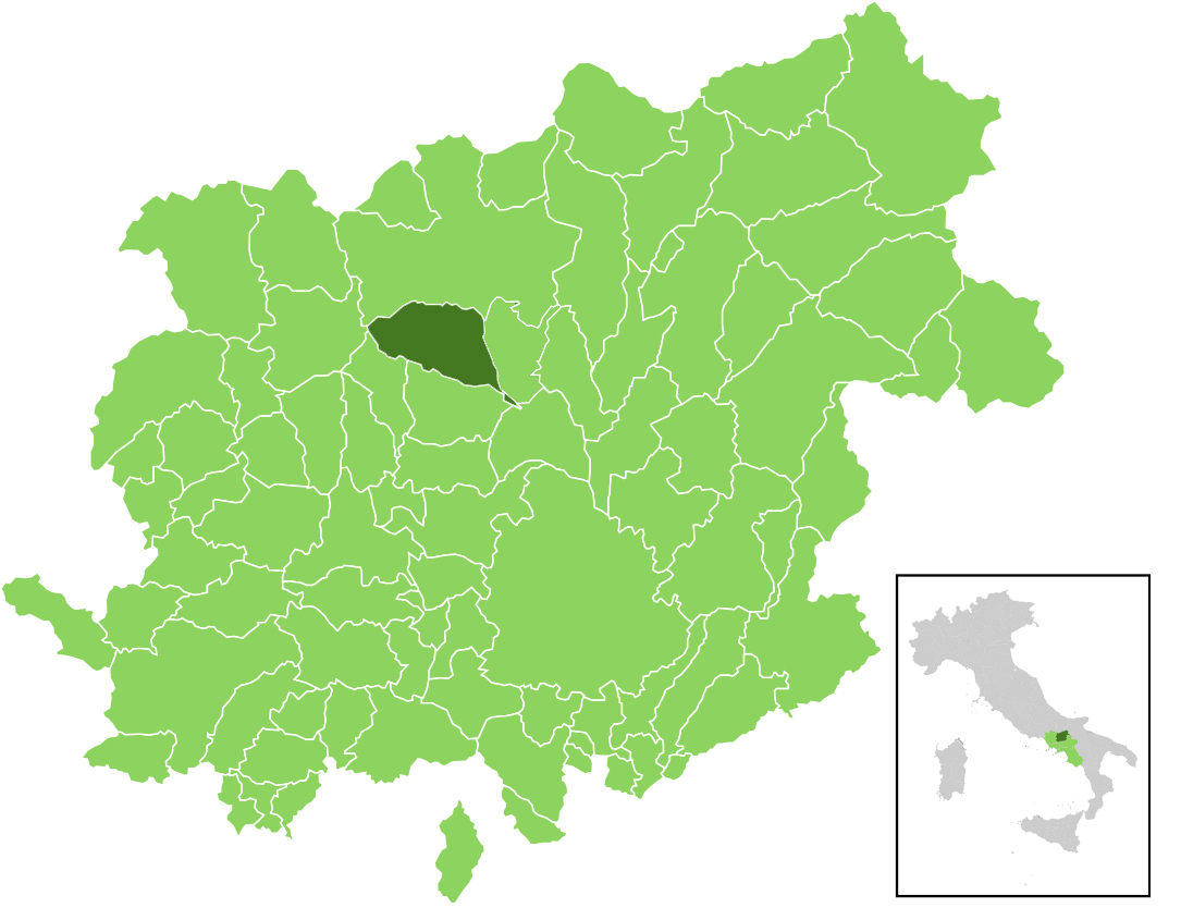 Map of the Italien Town Pontelandolfo (Province Benevento, Campania)